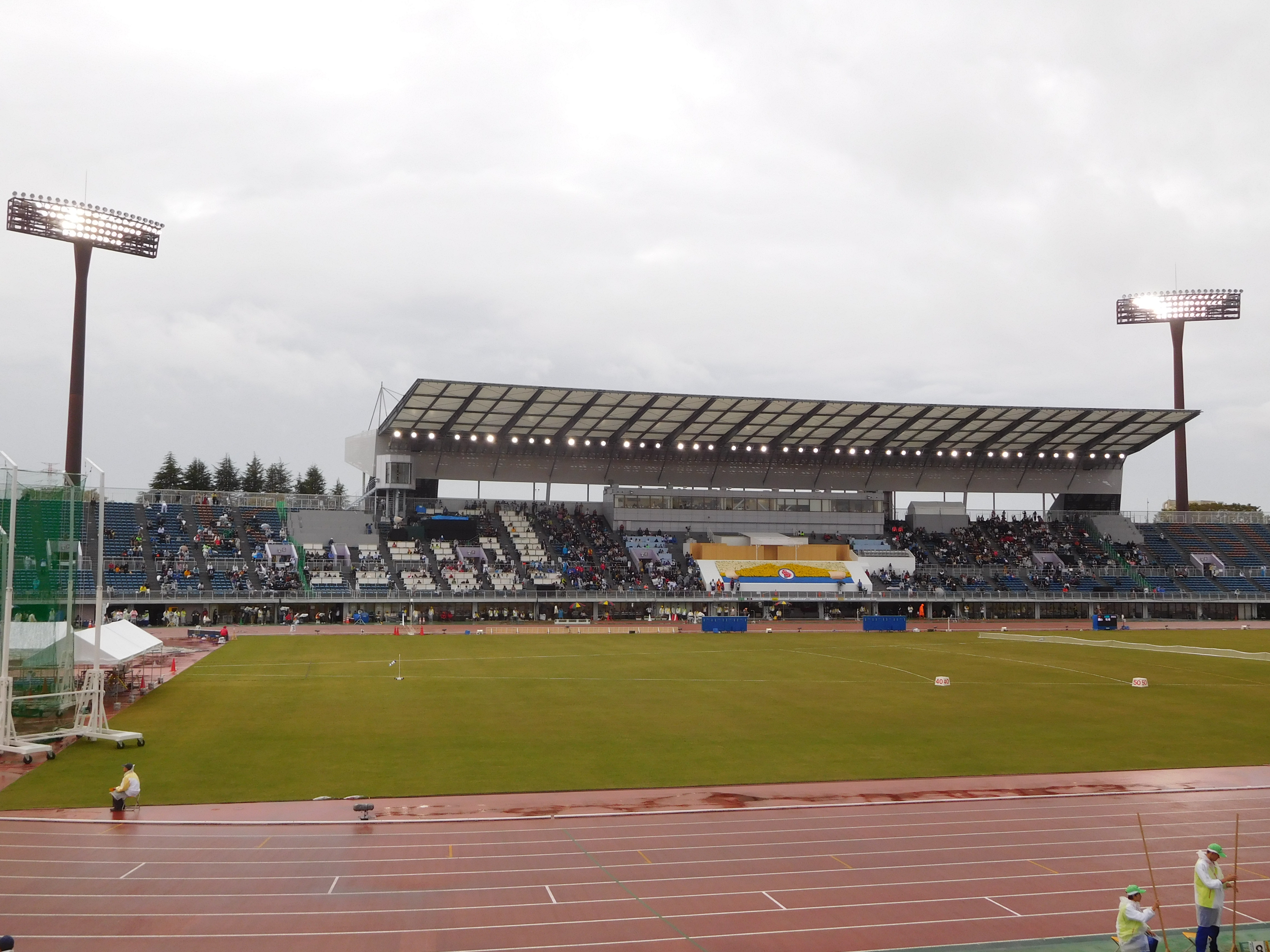 Main stadium of the 74th National Sports Festival. (Inside of Kasamatsu Sports Park Athletics Stadium)